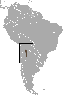 Cinderella Fat-tailed Mouse Opossum (Thylamys cinderella) range